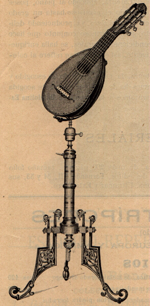 Spanish Mandolin, a kind of mandolin invented by Baldomer Cateura